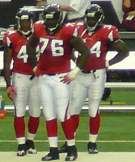 Jason Snelling, Quinn Ojinnaka and Ovie Mughelli; If used somewhere other than Wikipedia, Nelson, by name.